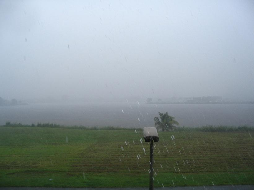 Kourou (French Guiana) : Bois Chaudat lake taken by Arria Belli during the rainy season, late February 2006.